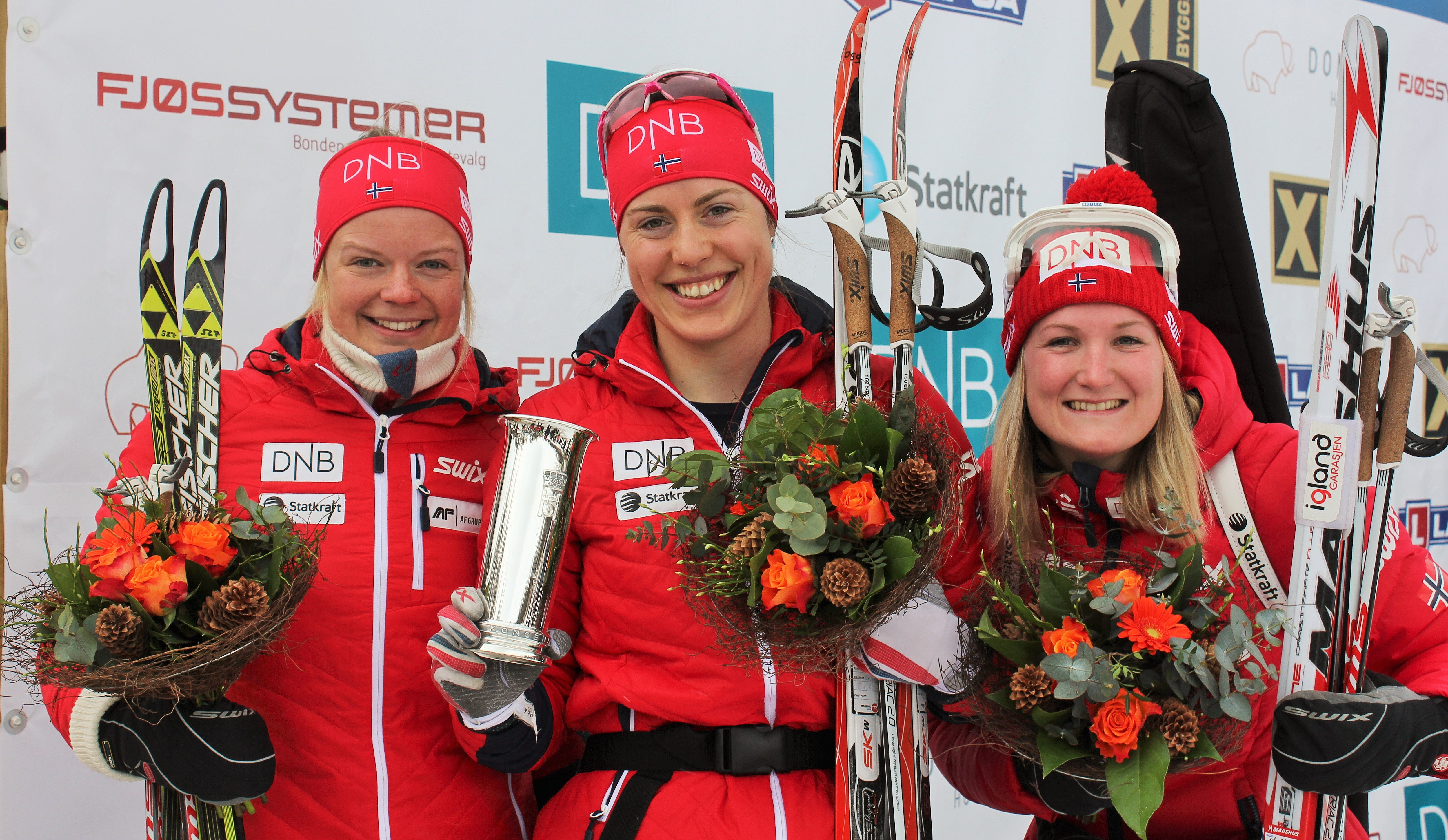 Top 3 at the 2016 Norwegian biathlon championship - pursuit. From left: Kaia Wøien Nicolaisen, Synnøve Solemdal and Marte Olsbu.